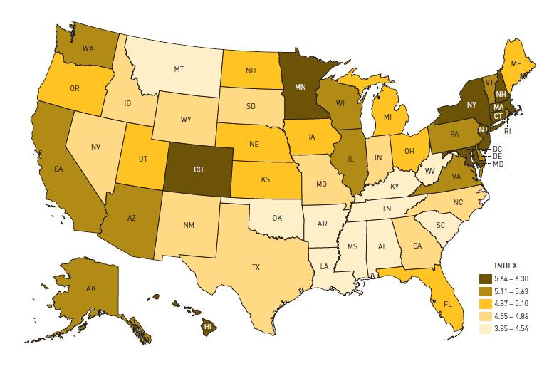 A map of the American Human Development Index for all U.S. states